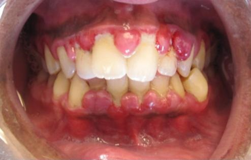 Cropped version of File:Gingivitis before and after.jpg